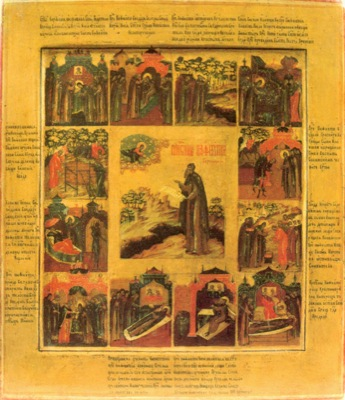 Venerable Paphnutius of Borovsk and his Life. Icon. Russia. The 1st half of the 19th century. Andrei Rublev Central Museum of Ancient Russian Culture and Art.